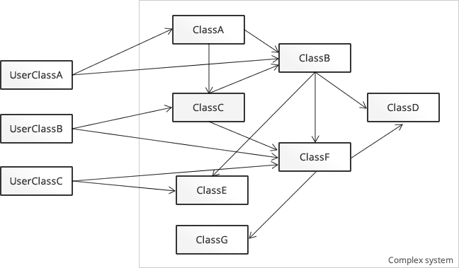 Simple diagram of a complex system without usage of Facade.